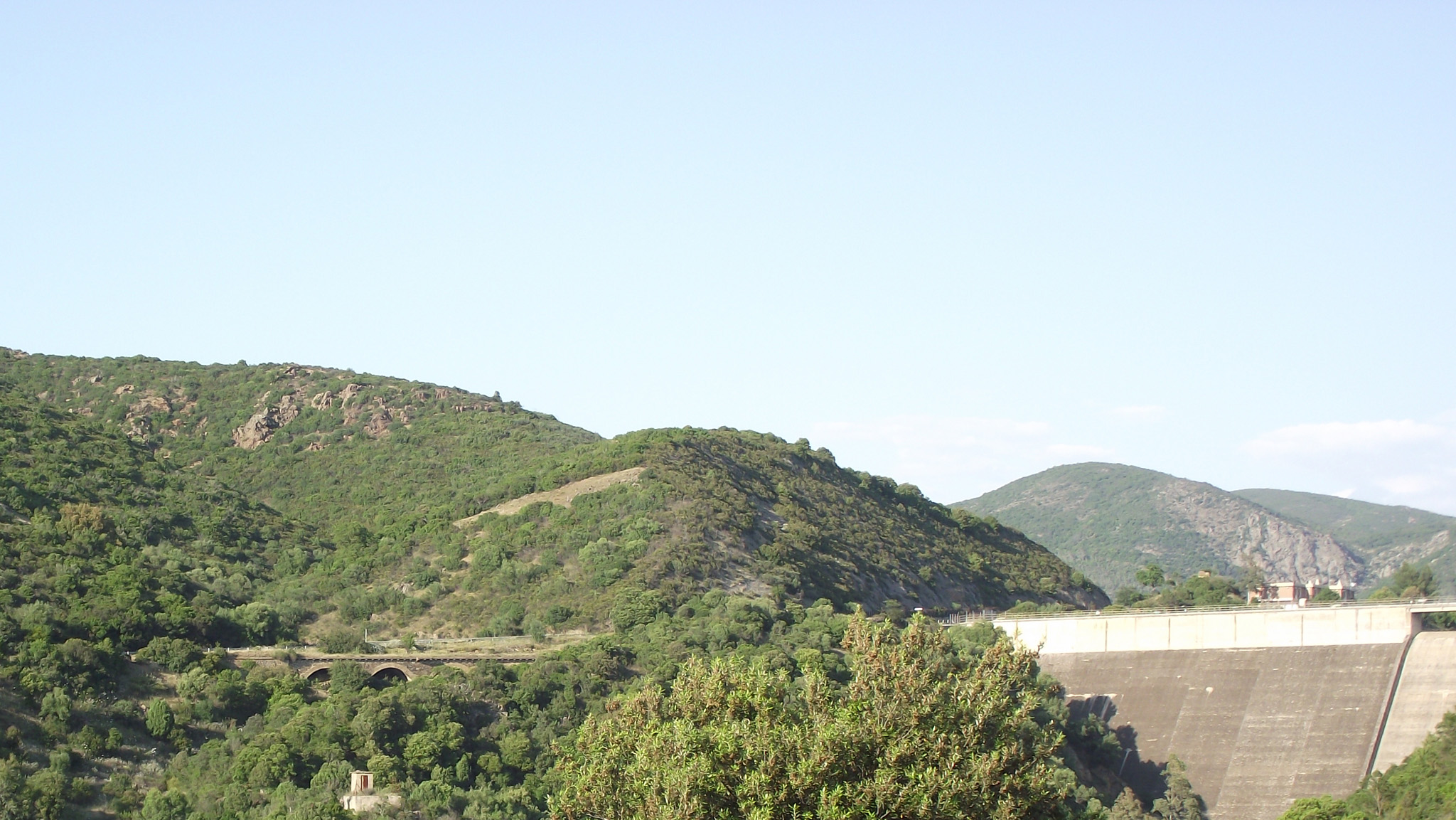 Rail bridge of the former railway Siliqua-San Giovanni Suergiu-Calasetta in Sardinia, closed between 1968 and 1974. On the right the barrage of Bau Pressiu dam.